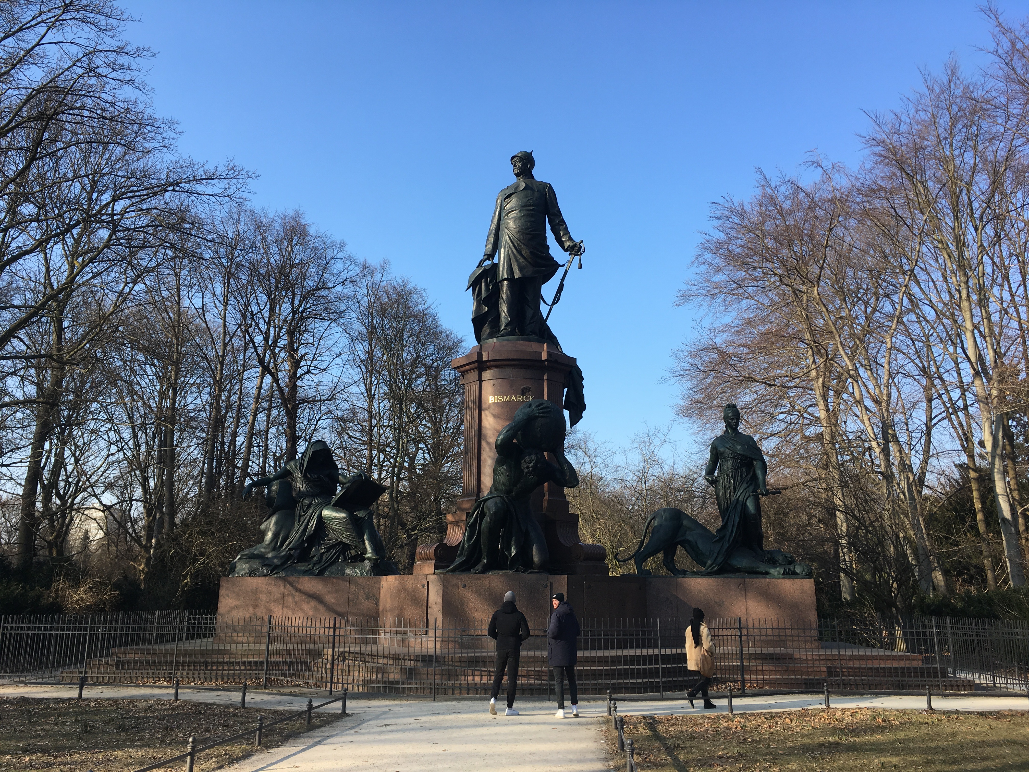 Bismarck Memorial in Berlin - Tiergarten at Winter